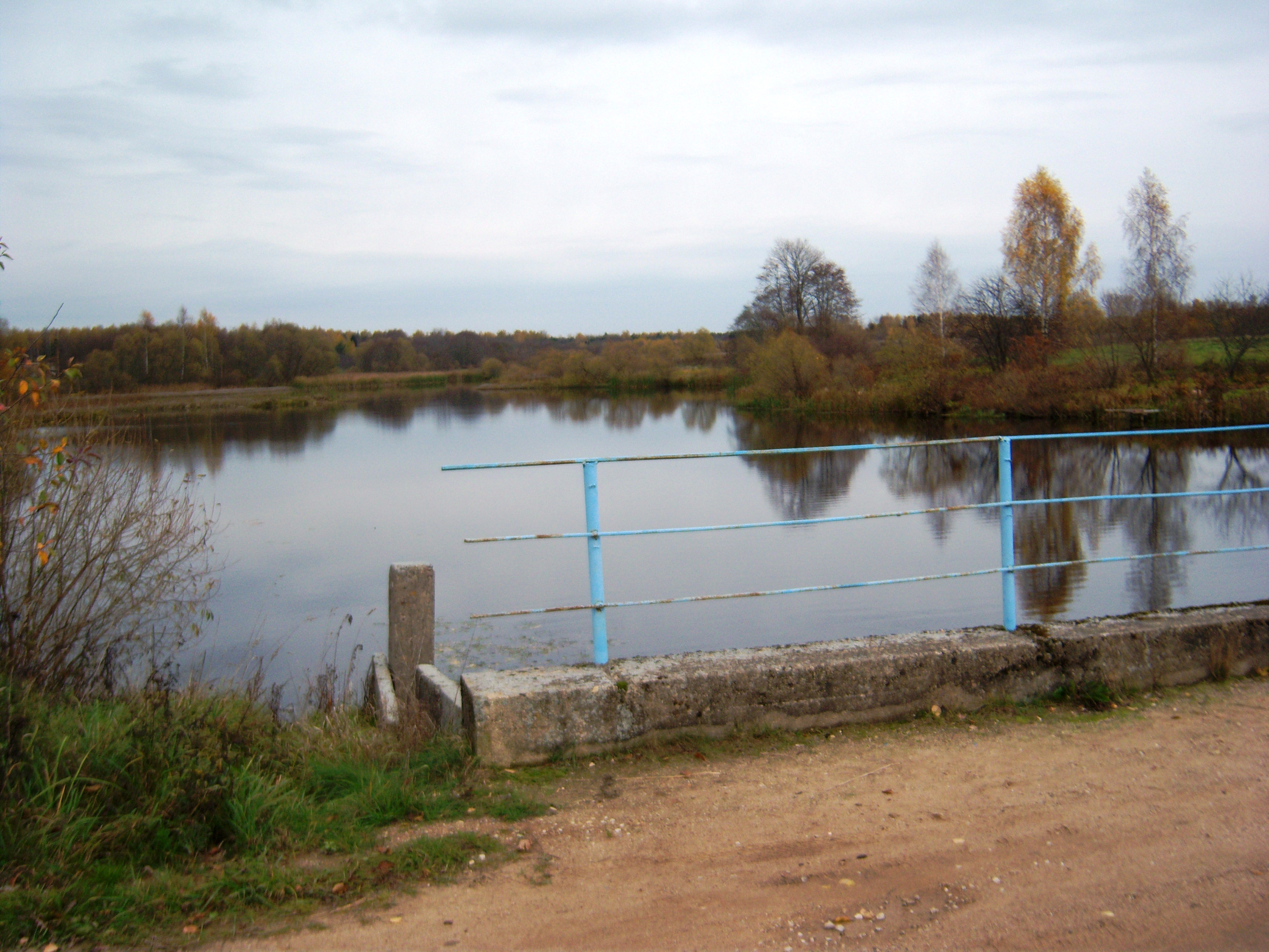 Pelyša River by Žliobiškiai, Anykščiai District, Lithuania